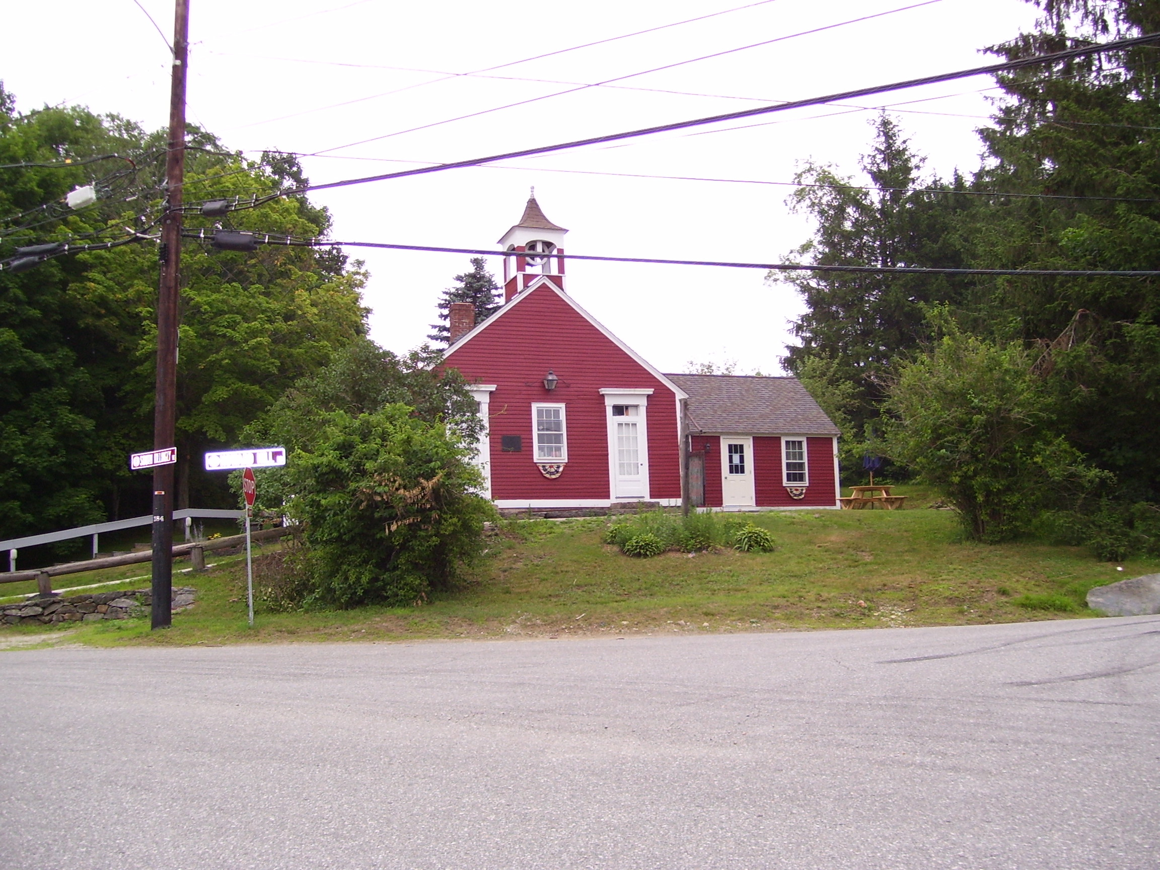 This is my 2008 photo of the Foster School House in Foster Center, Rhode Island.